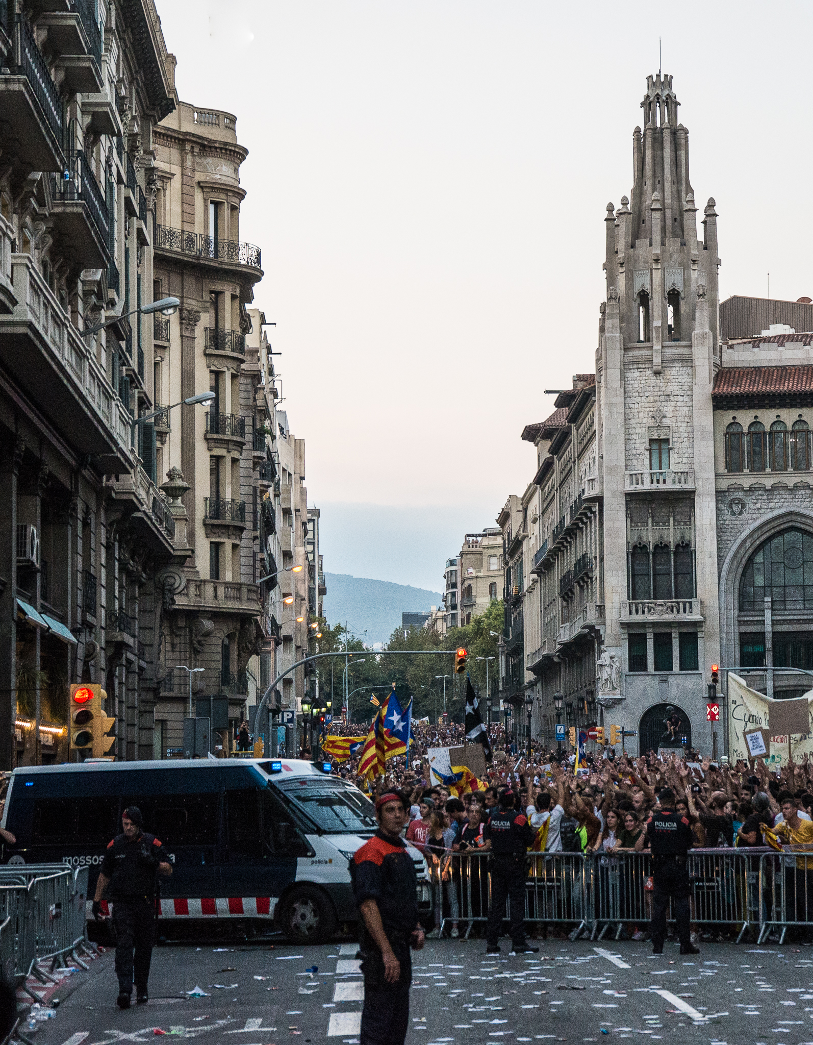 Catalan general strike of October 3, 2017 against police brutality. Protesters in front of the police station of the Policía Nacional, one of the causes of riot charges (Via Laietana, Barcelona). Mossos protecting the entrance.